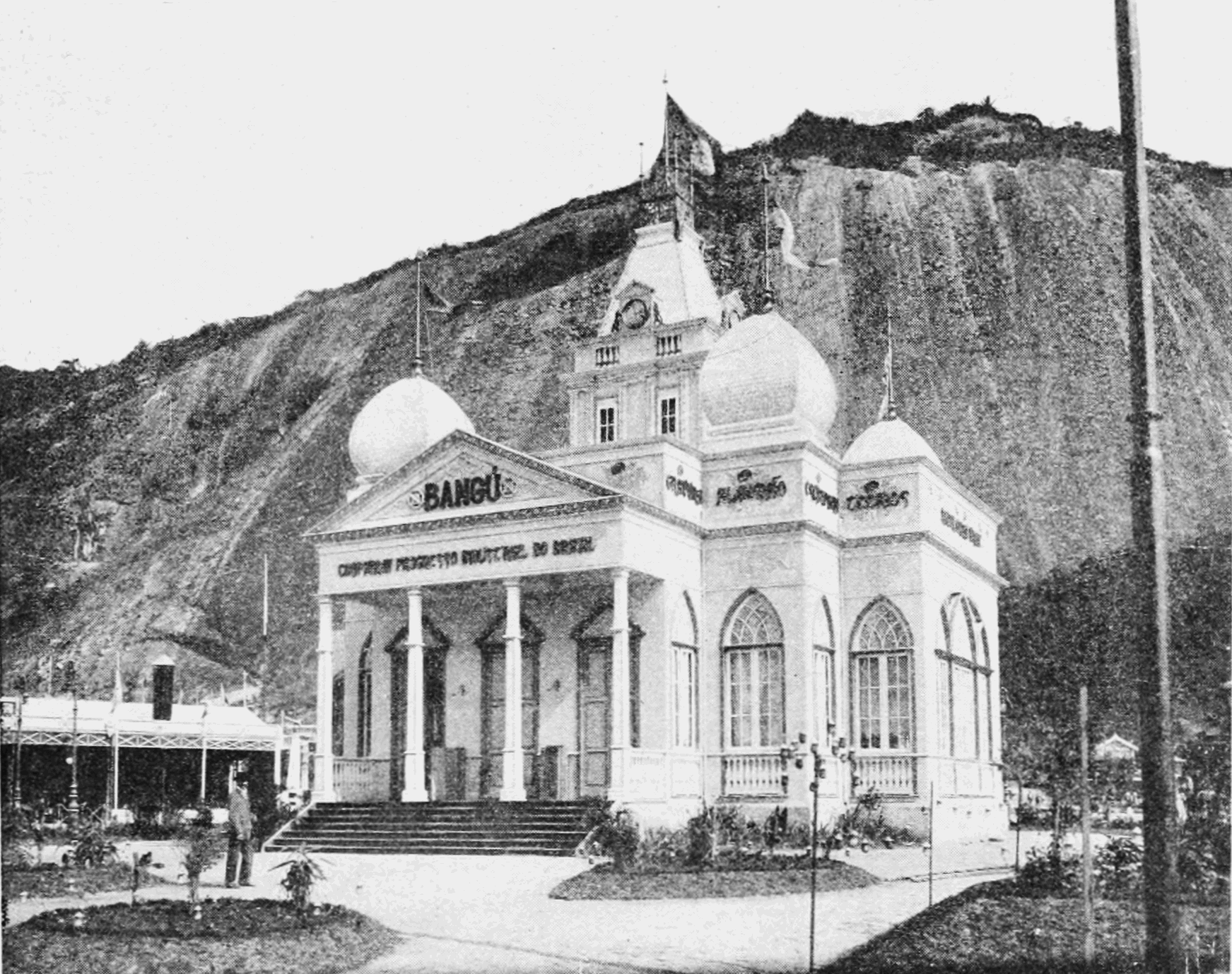 The Bangú factory building